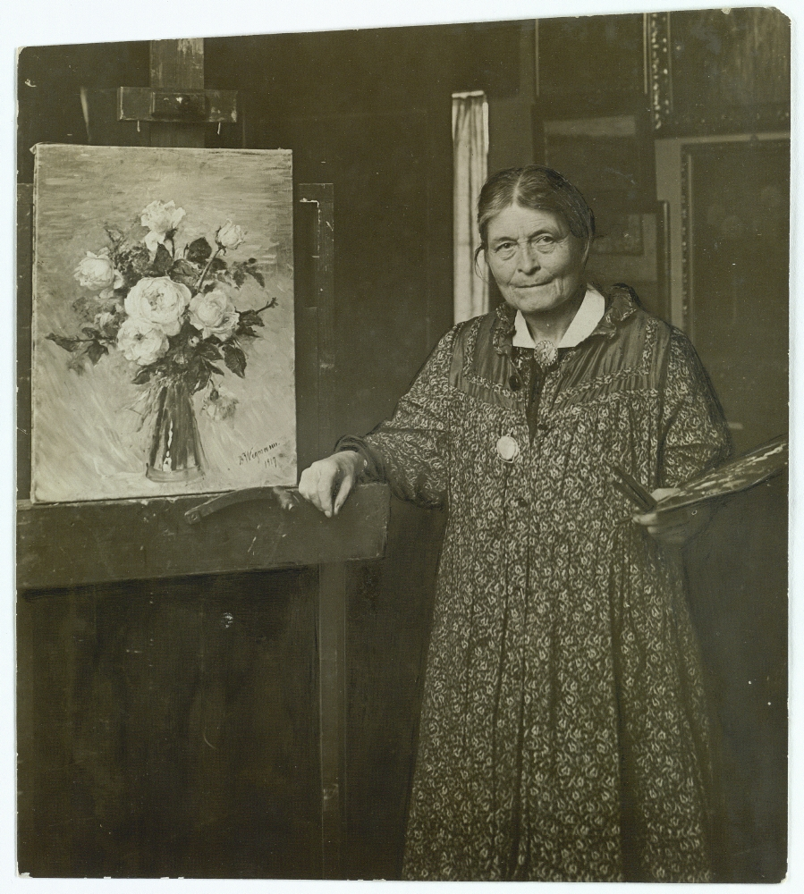 Bertha Wegmann ( 1833-1891). Danish painter. KB id: ke016785.tif Photo: Holger Damgaard (1870-1945) Department of Maps, Prints and Photographs, The Royal Library, Denmark.